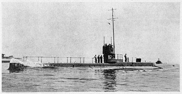 HMS E7, E-class submarine of the Royal Navy. Launched October 2, 1913. Scuttled on September 5, 1915 in the Dardanelles during the Battle of Gallipoli.